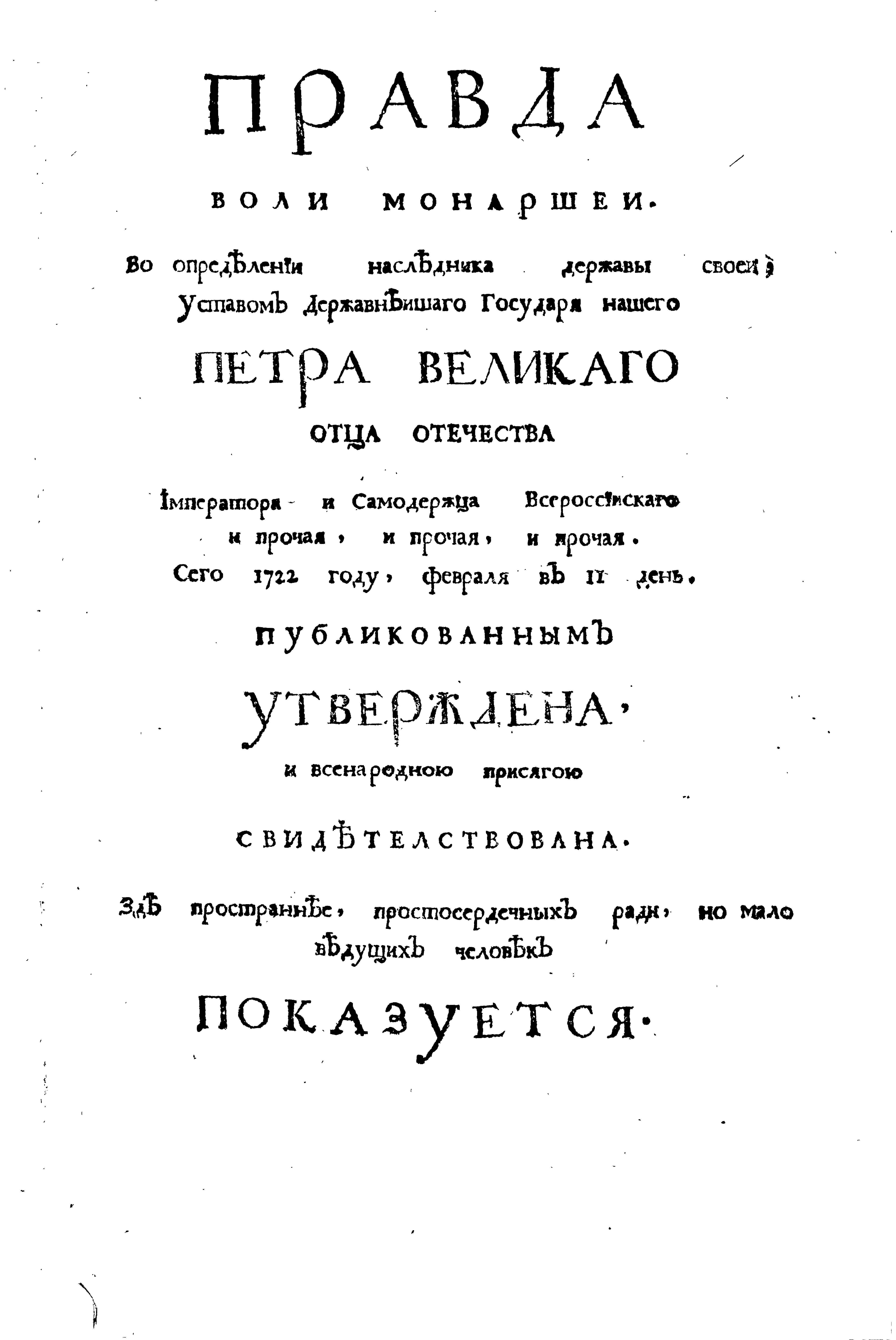 Cover page of Theophan Prokopovich's treatise "Truth about the Monarch's Will" (1722)